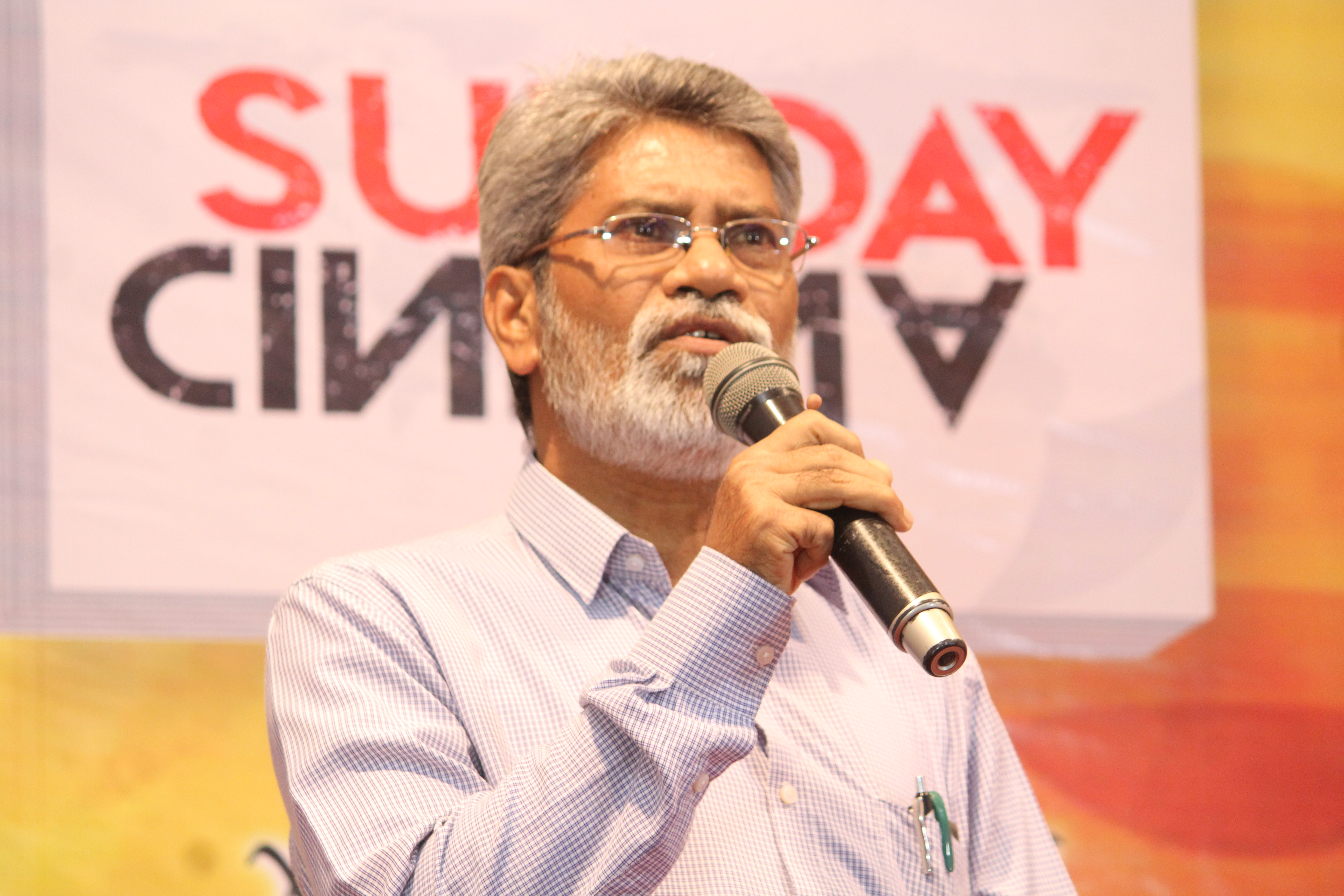 Laxmipathi Adepu in Sunday Cinema, Paidi Jairaj Preview Theatre, Ravindra Bharathi, Hyderabad